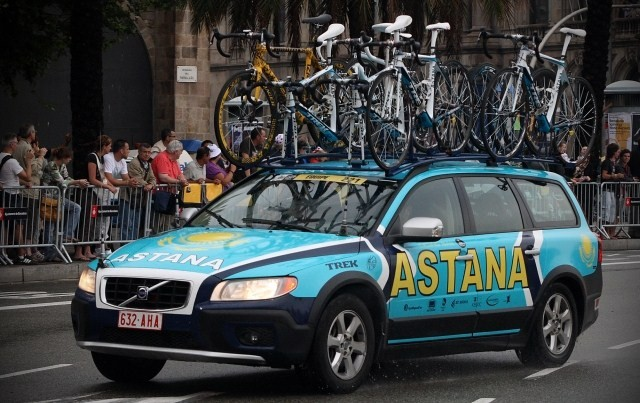 Volvo 4X4 Astana Cycling Team